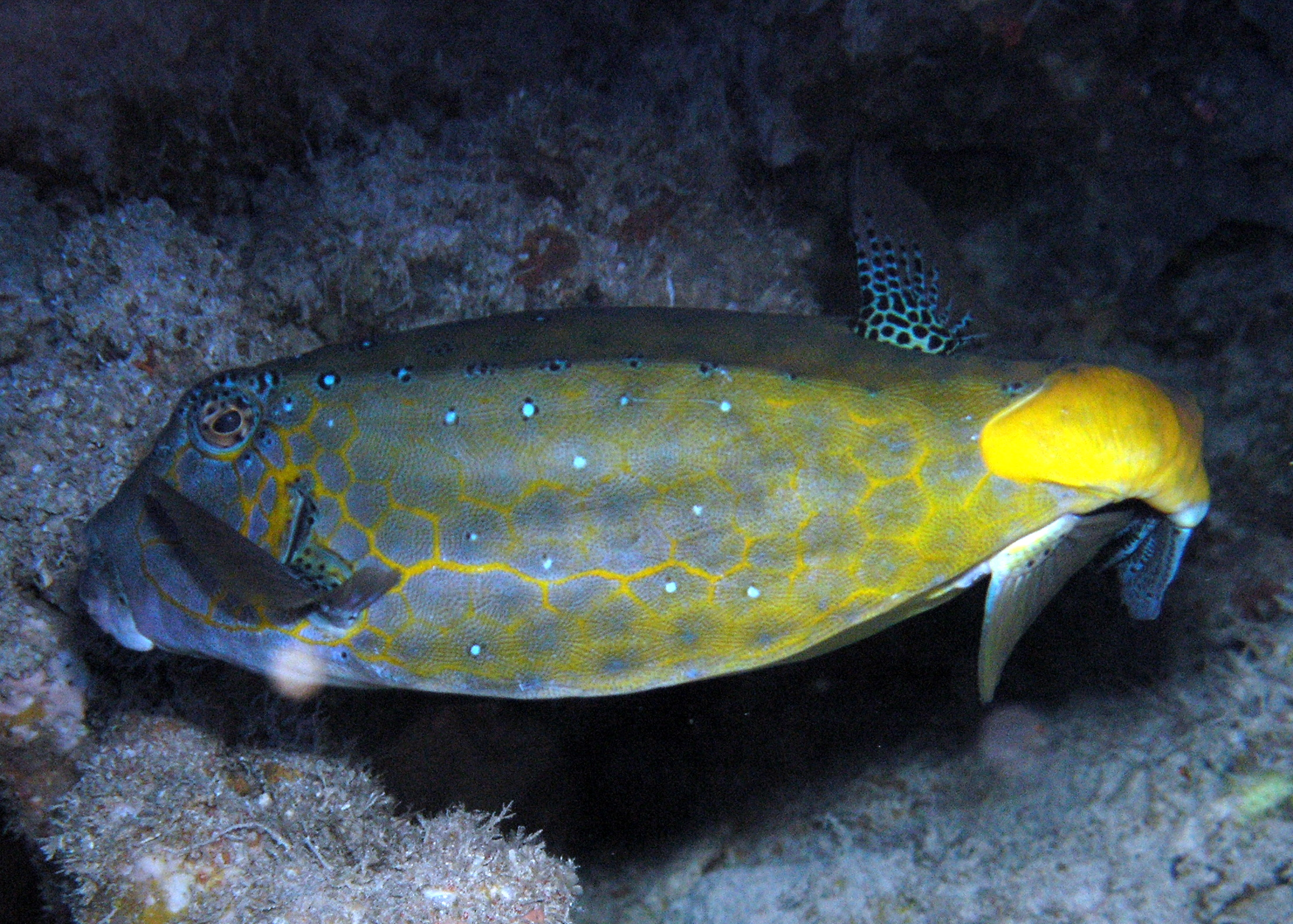 Image of a yellow boxfish. Ostracion cubicus. Taken off Bunaken Island, North Sulawesi, Indonesia.